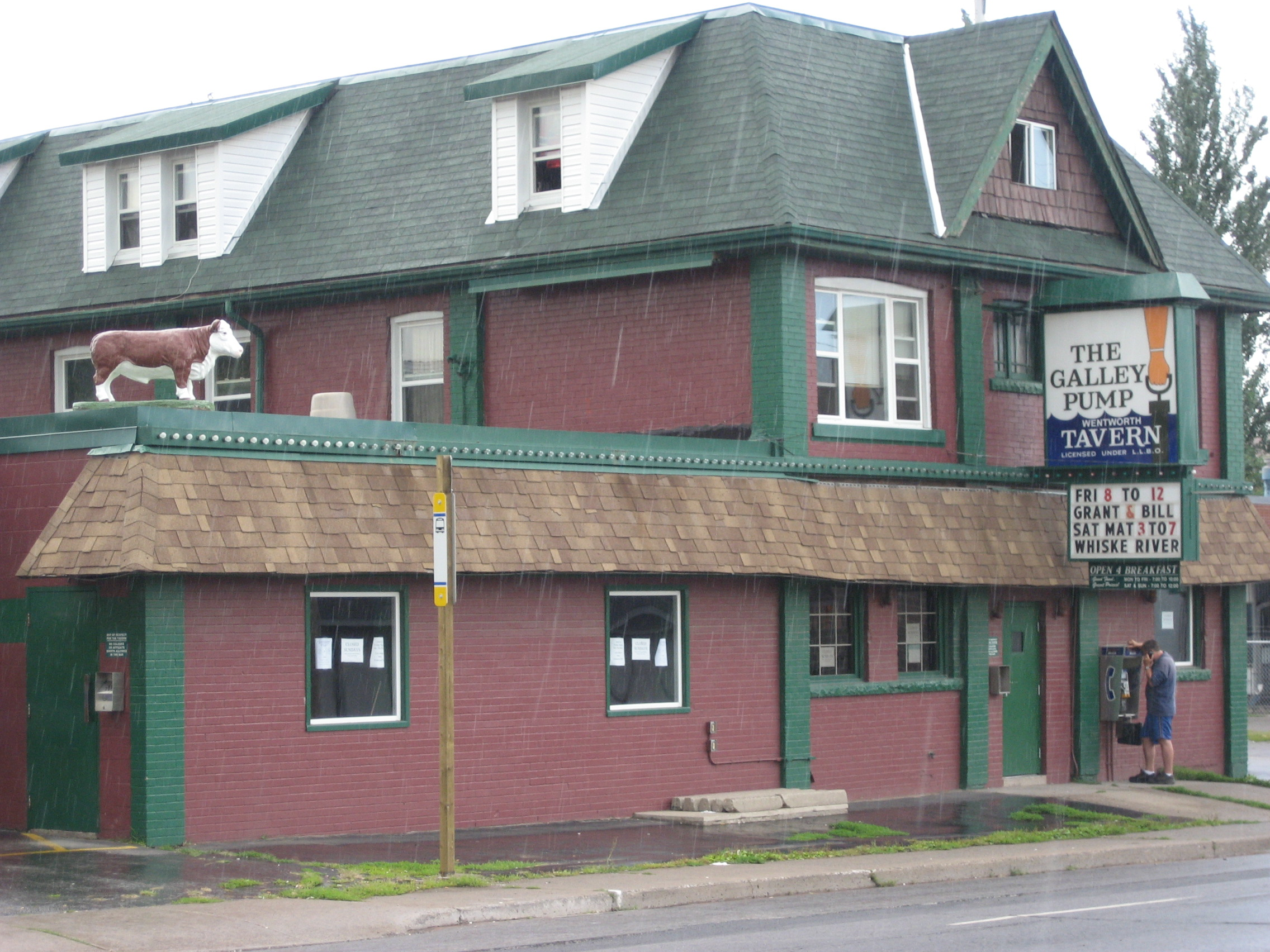 The Galley Pump/ Wentworth Tavern, Hamilton, Canada.